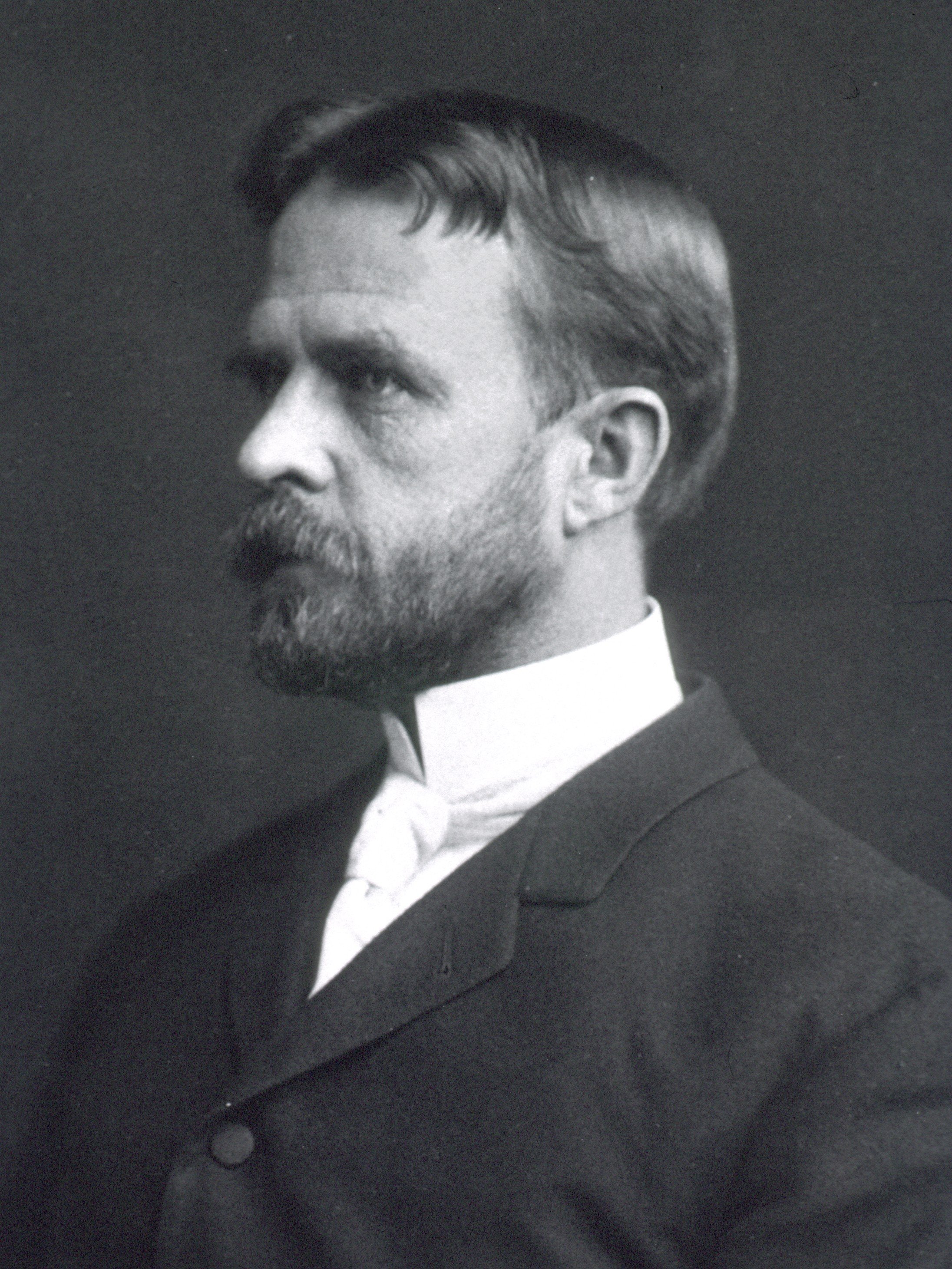 This image is one of several created for the 1891 Johns Hopkins yearbook of 1891, see Shine and Hobel. 1976. Thomas Hunt Morgan. The University Press of Kentucky ISBN 081319995X Invalid ISBN for other examples of photos from the same sitting.